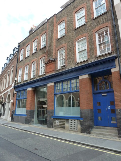 Date stone in Tufton Street, London